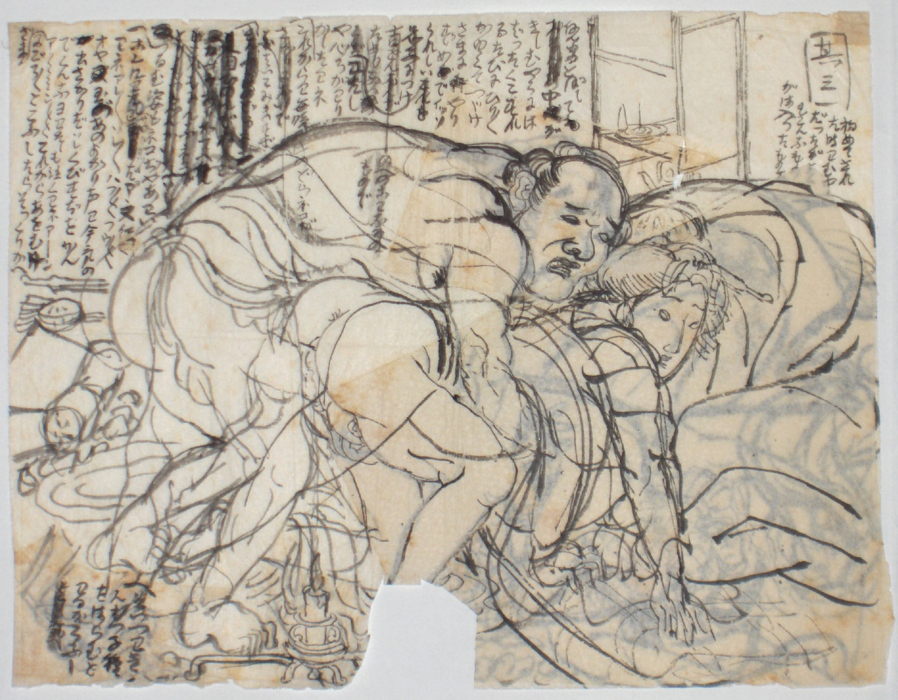 A vigorous original preparatory drawing by Kunichika for an aiban shunga print. Sumi on thin tissue with extensive pentimenti ( giving an alternative position for the female ).